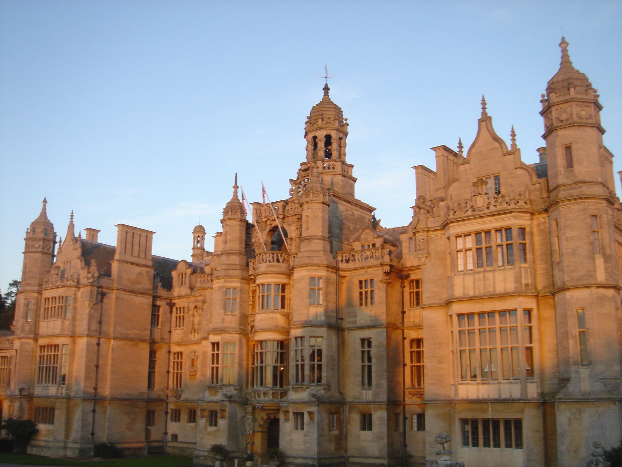 Harlaxton Manor, View from Side Gardens